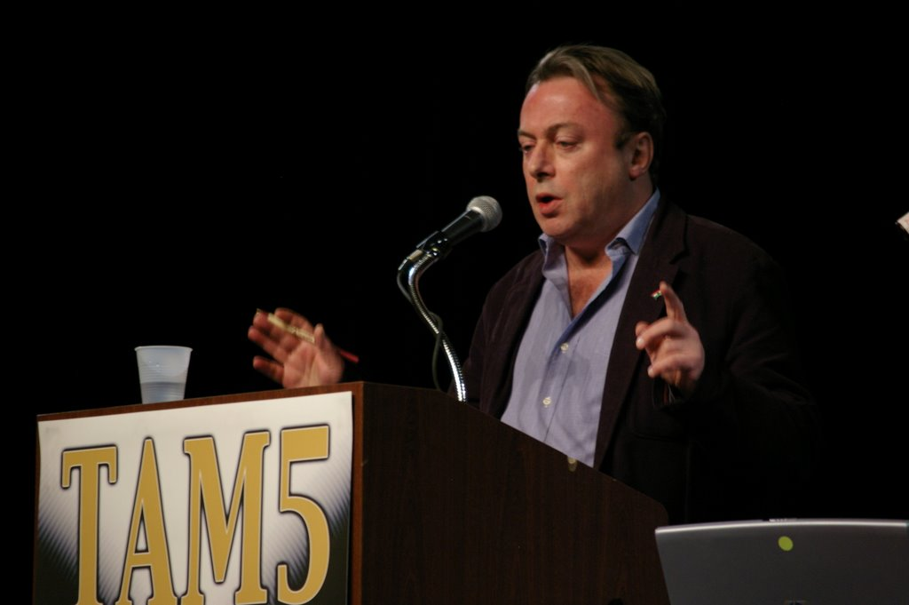 Christopher Hitchens from the Randi Foundation The Amazing Meeting 2007